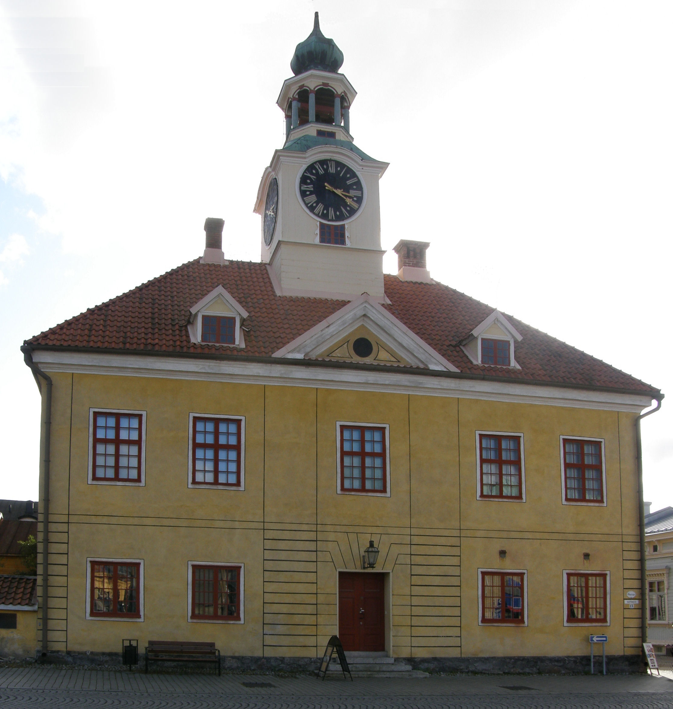 Old Cityhall in Rauma Finland